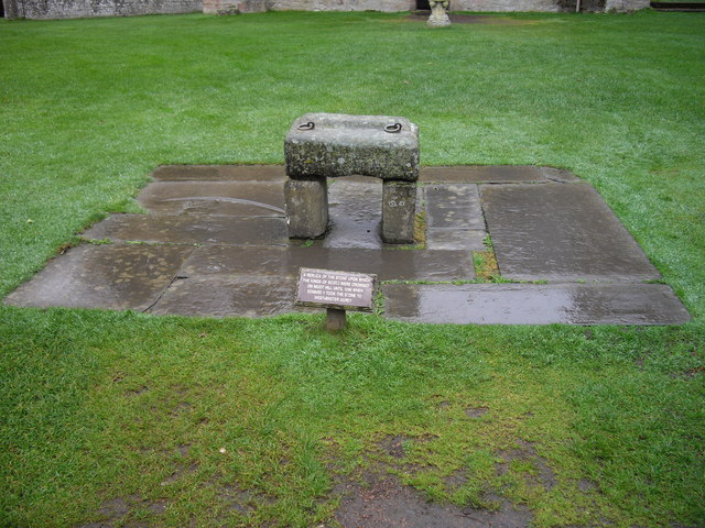 The Stone of Scone This is a replica of the stone upon which the kings of Scotland were crowned on Moot Hill until it was taken to England in 1296.